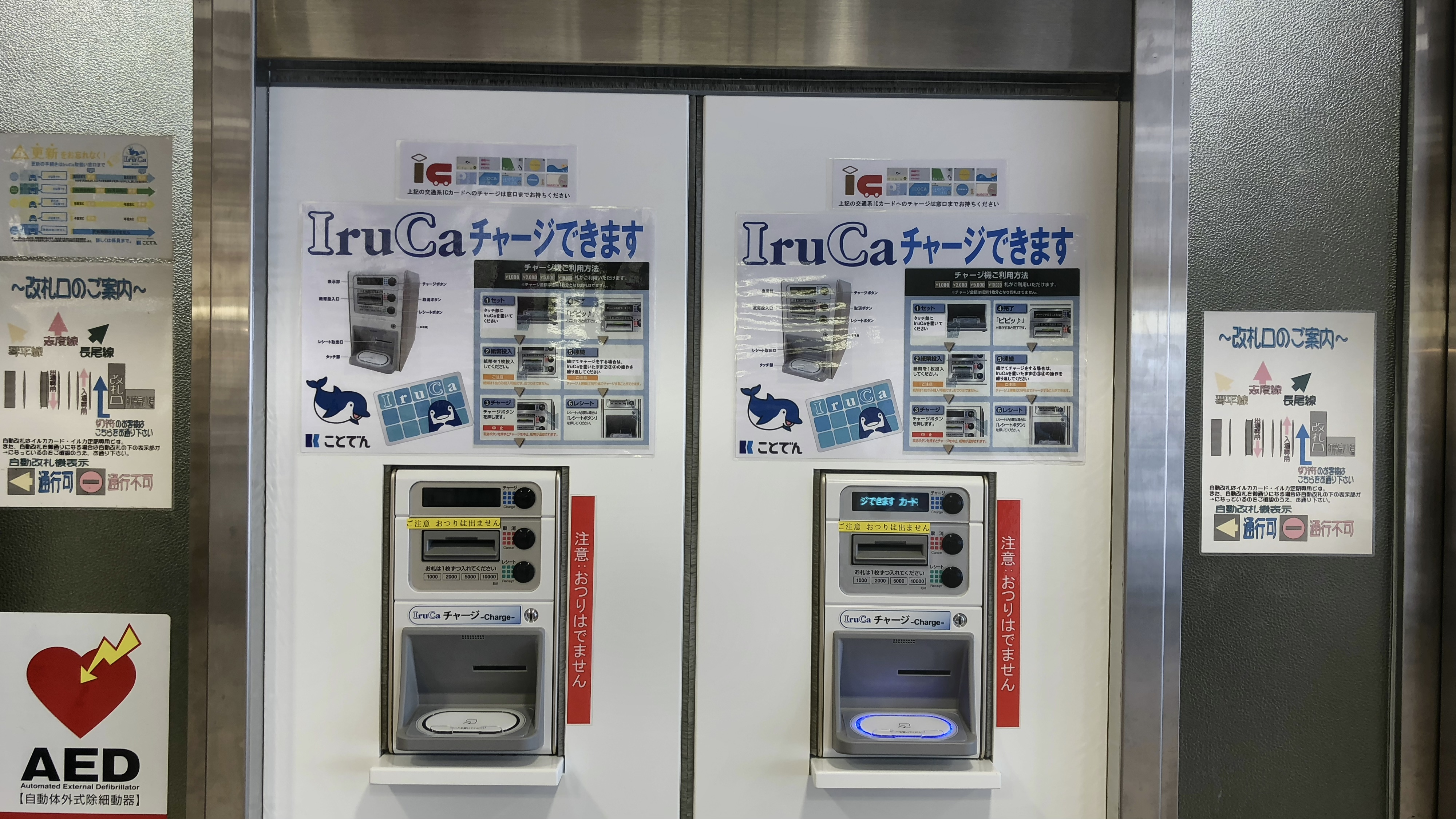 IruCa charge machine (2018,All IruCaIC cards are available. Competitor IC cards unavailable)